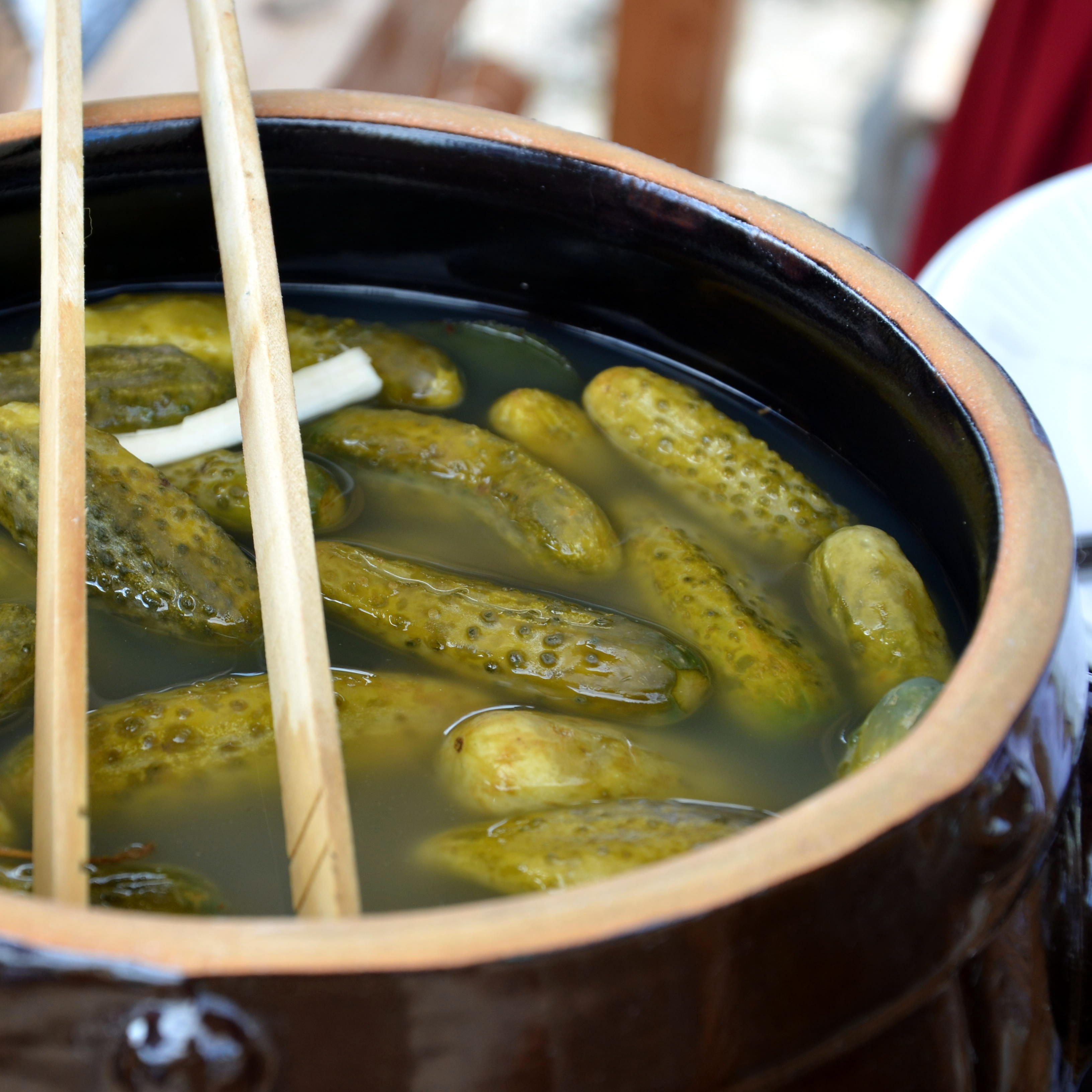 Salzgurken in der Einmachkeramik, Mrzygłod